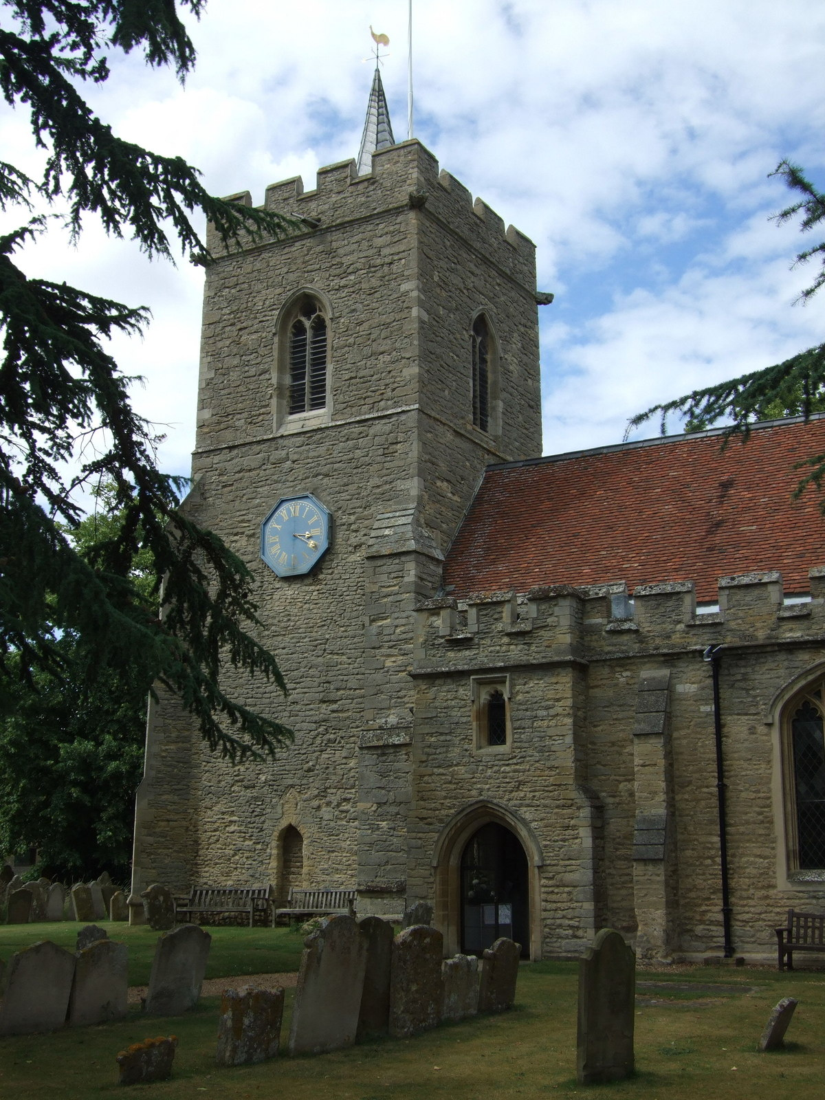 West tower and south porch of St James' parish church, Biddenham, Bedfordshire, seen from south-southeast